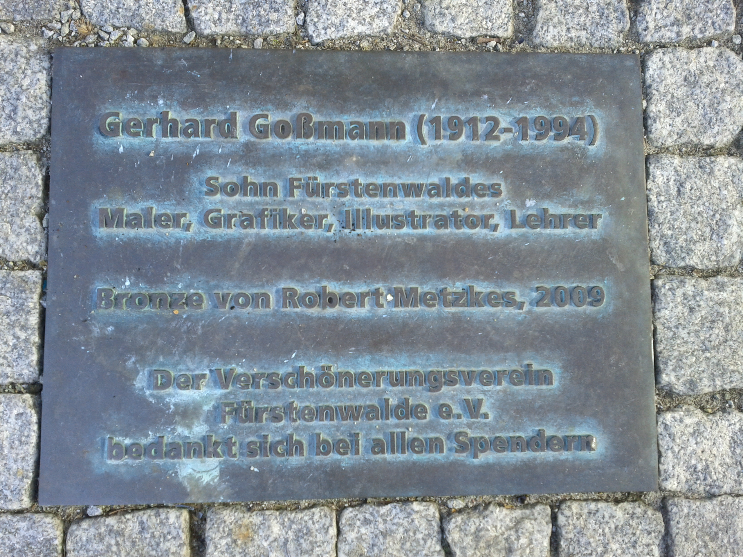 Gerhard Goßmann (1912-1994) plaque describing the statue by Robert Metzkes, 2009, in Fürstenwalde